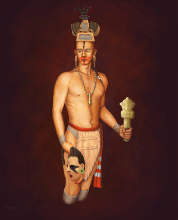 A digital painting by the artist Herb Roe, of a mississippian era priest holding a ceremonial flint mace and a severed human head.